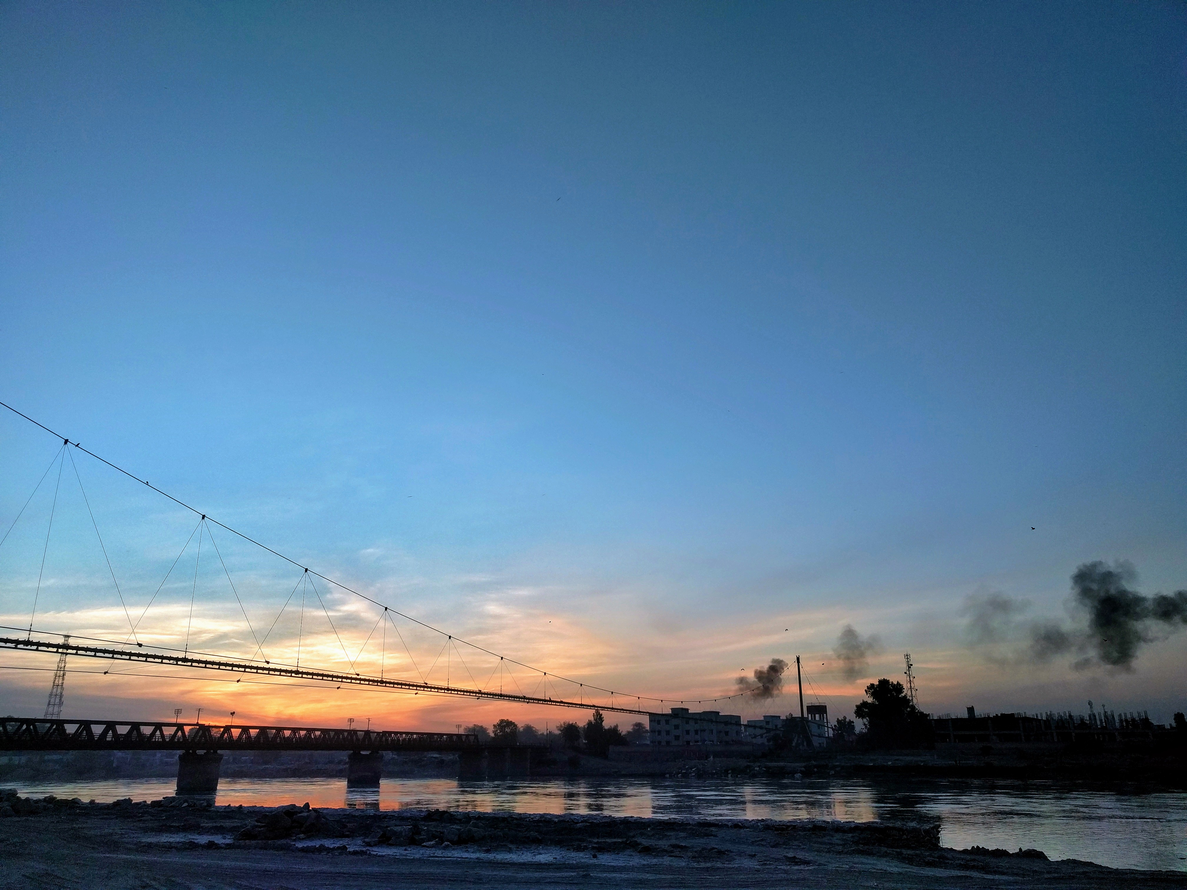 This picture features the 'Red Bridge' on Kabul River in Nowshera, Khyber Pukhtoon Khwan, Pakistan. The bridge is known as 'Sur Pul' in the local language built by the British Empire for railway purpose back when they ruled the Subcontinent.